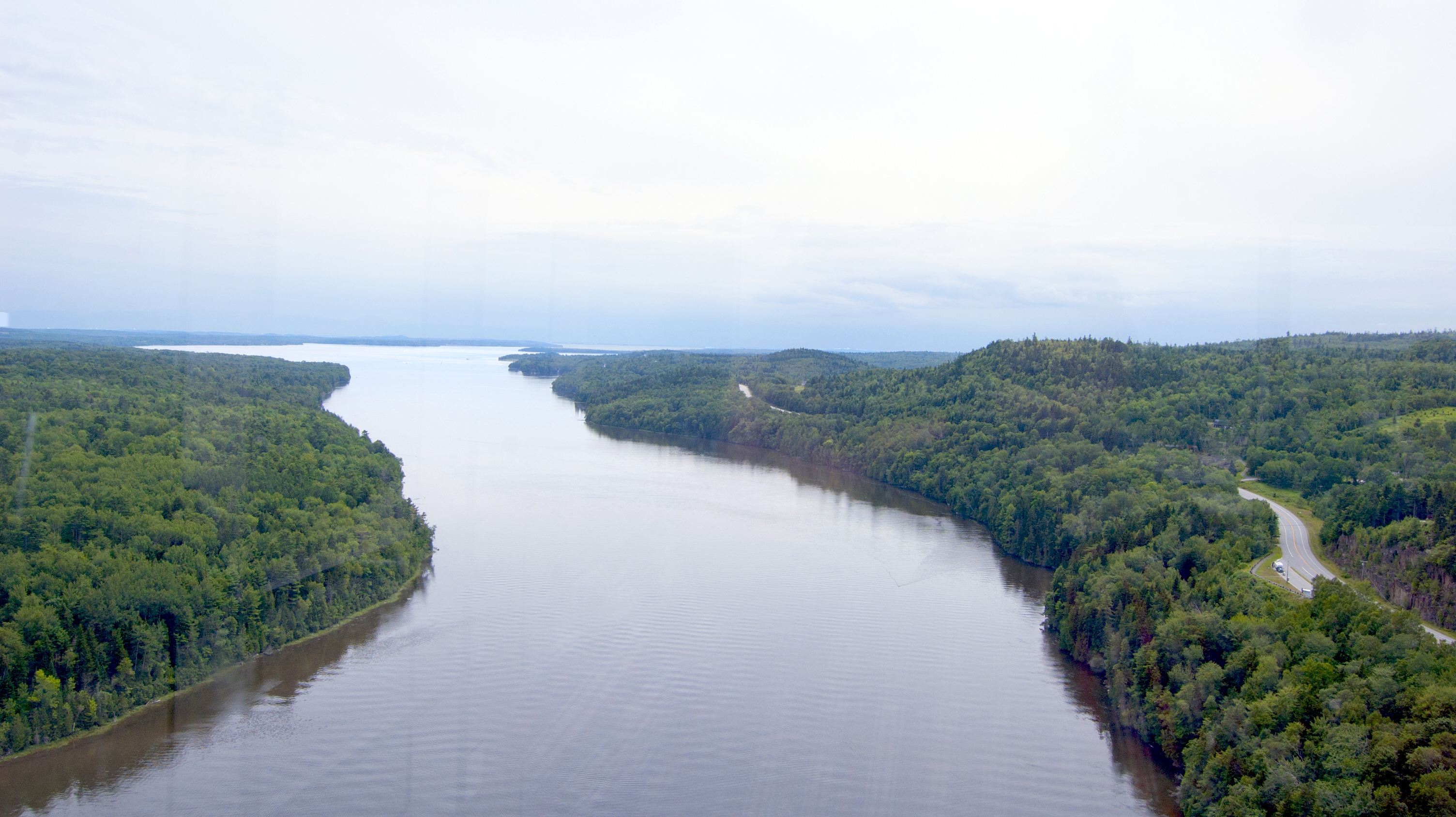 The Penobscot River viewed from the Penobscot Narrows Bridge Observatory at Prospect, Maine, USA, (just below Bucksport) as it empties in the Penobscot Bay (visable in the distance) at Stockton Springs, ME. Verona Island is on the left and US Rt 1 on the right as it approaches the Penobscot Narrows Bridge which it crosses.